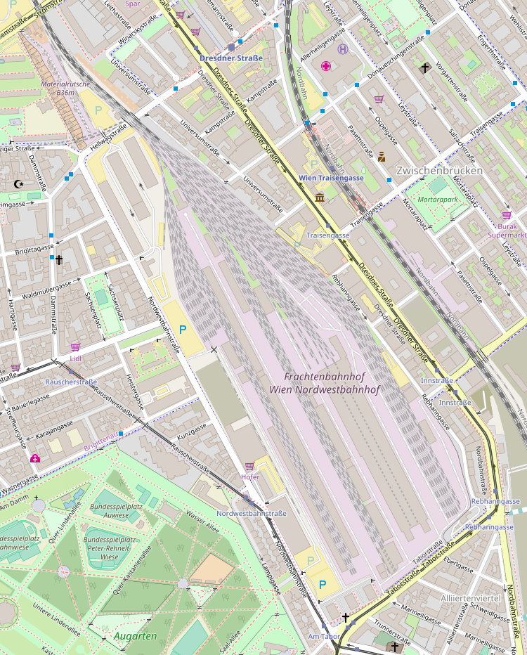 This map may be incomplete, and may contain errors. Don't rely solely on it for navigation.